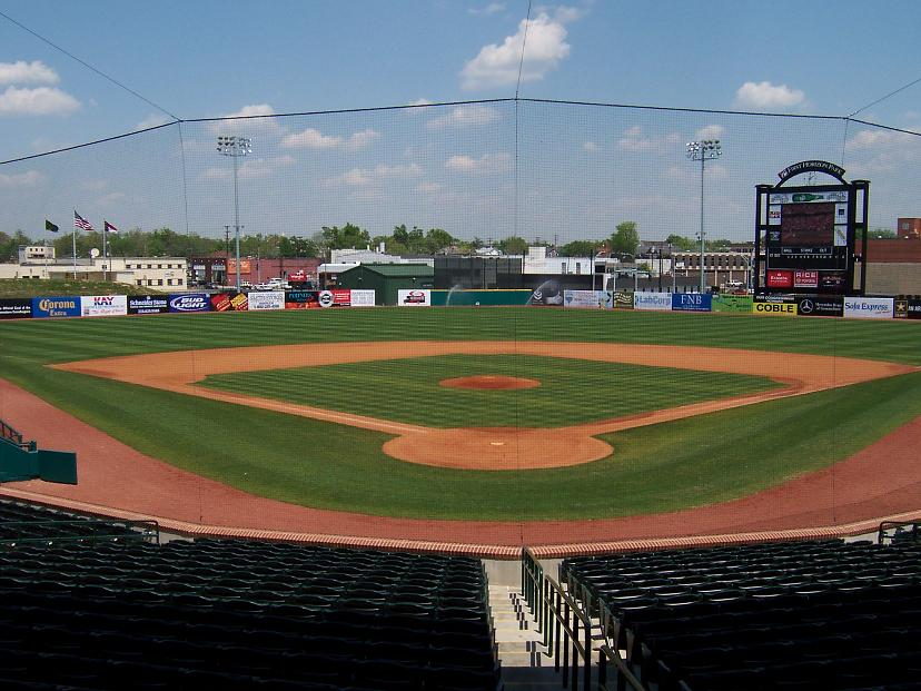 I took this photo on 4/21/2005.